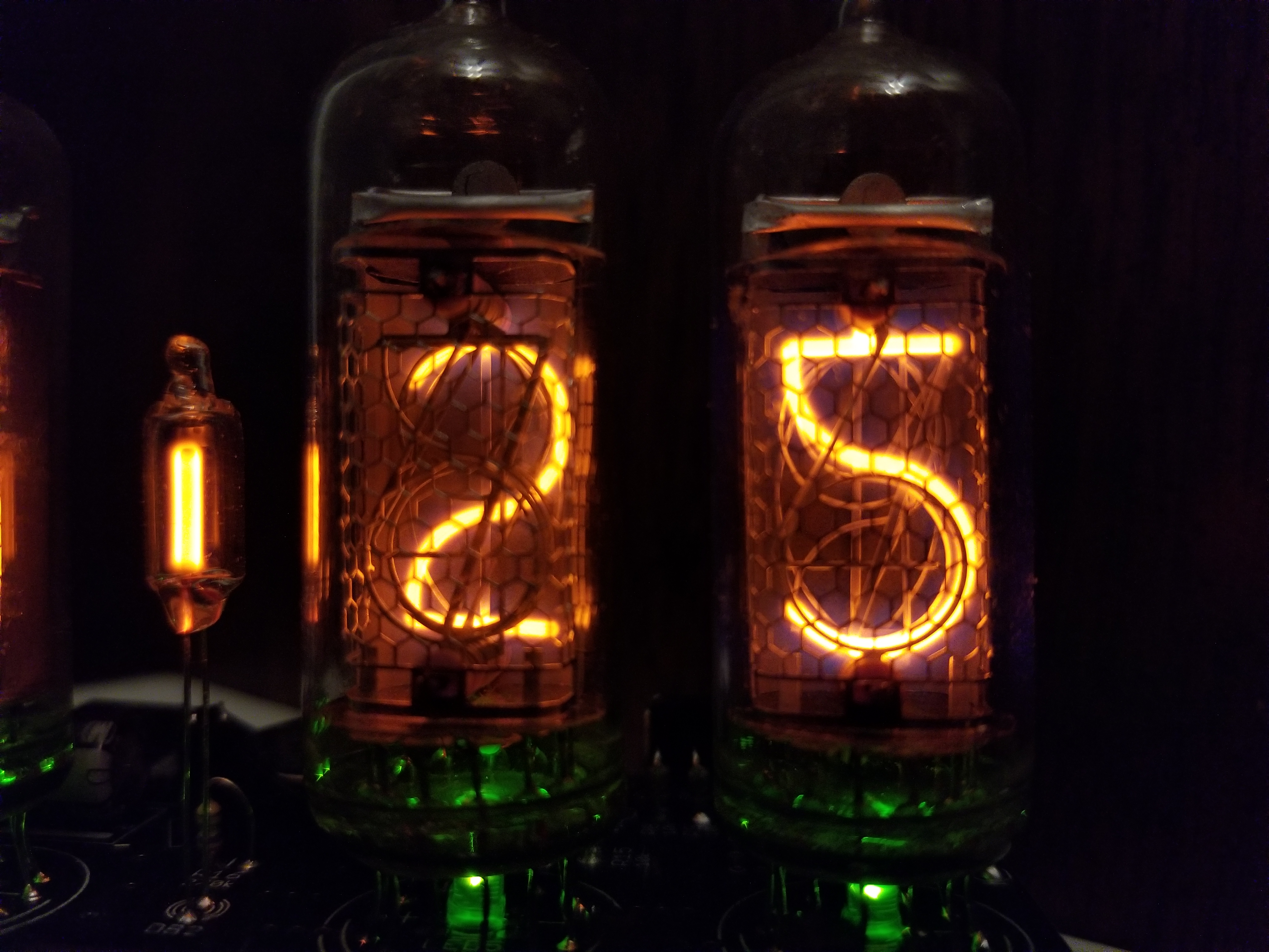 ИH-14 (IN-14) Nixie tubes displaying "25". Notice how the 5 is an upside-down 2.